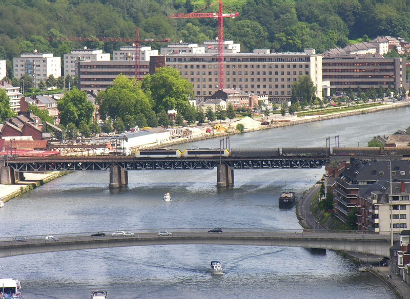 Jambes railway viaduct over the Meuse river - NMBS lines 154 and 162